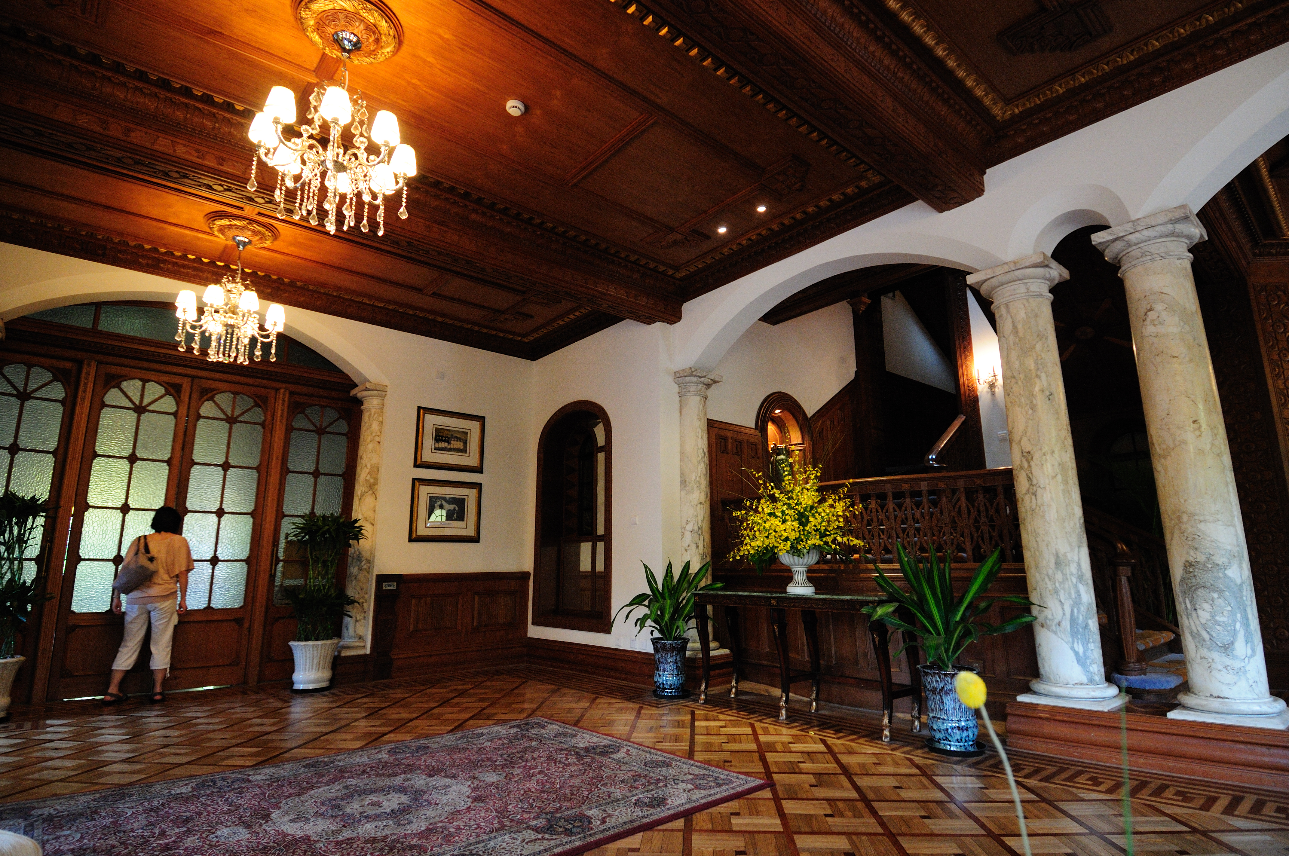 The interior of the Moller Villa in Shanghai, China.